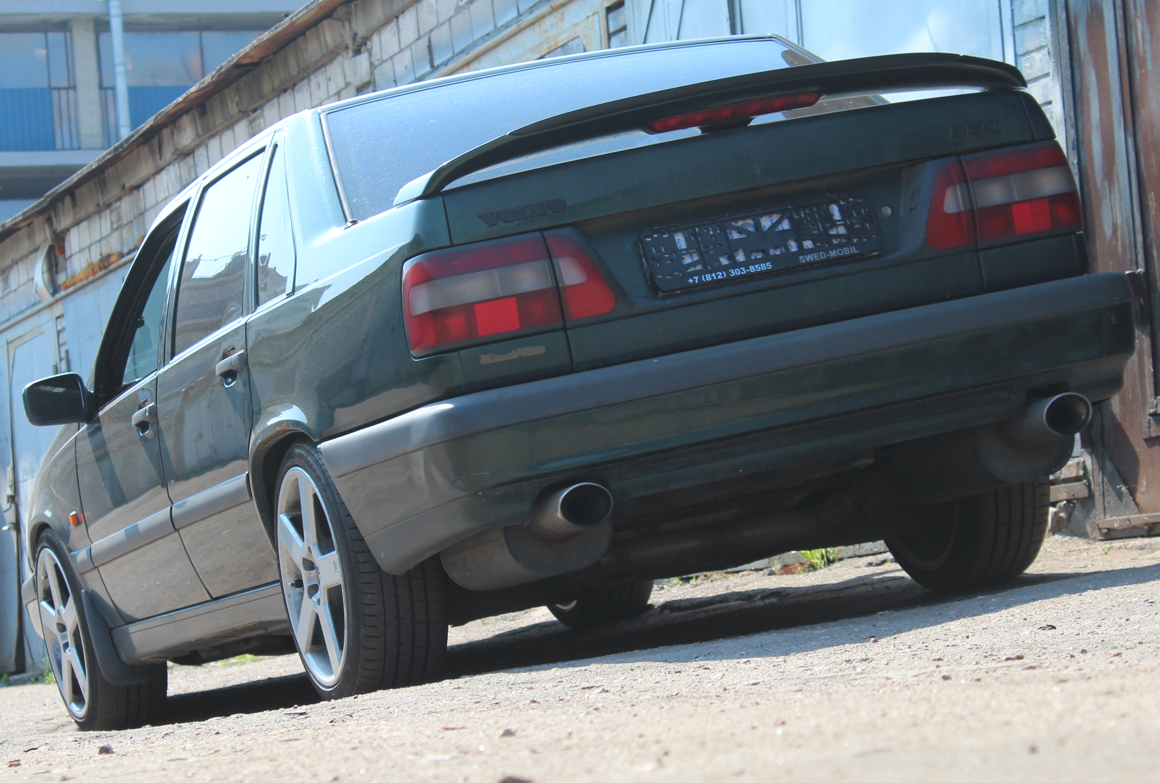 Volvo 850 R, 1997 model year, color Dark olive pearl (green).